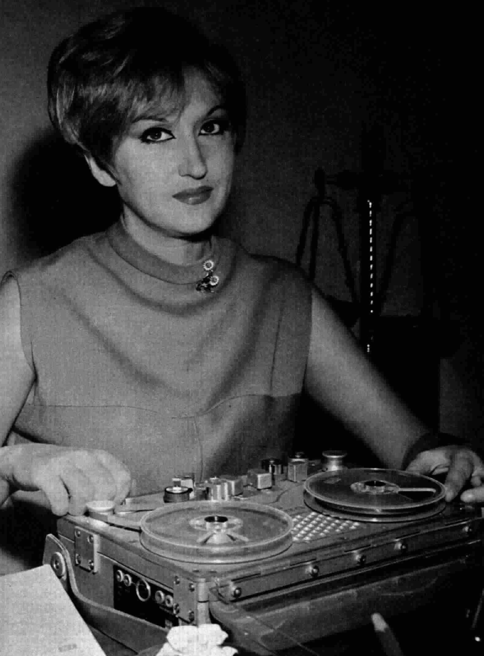 Italian writer Dina Luce